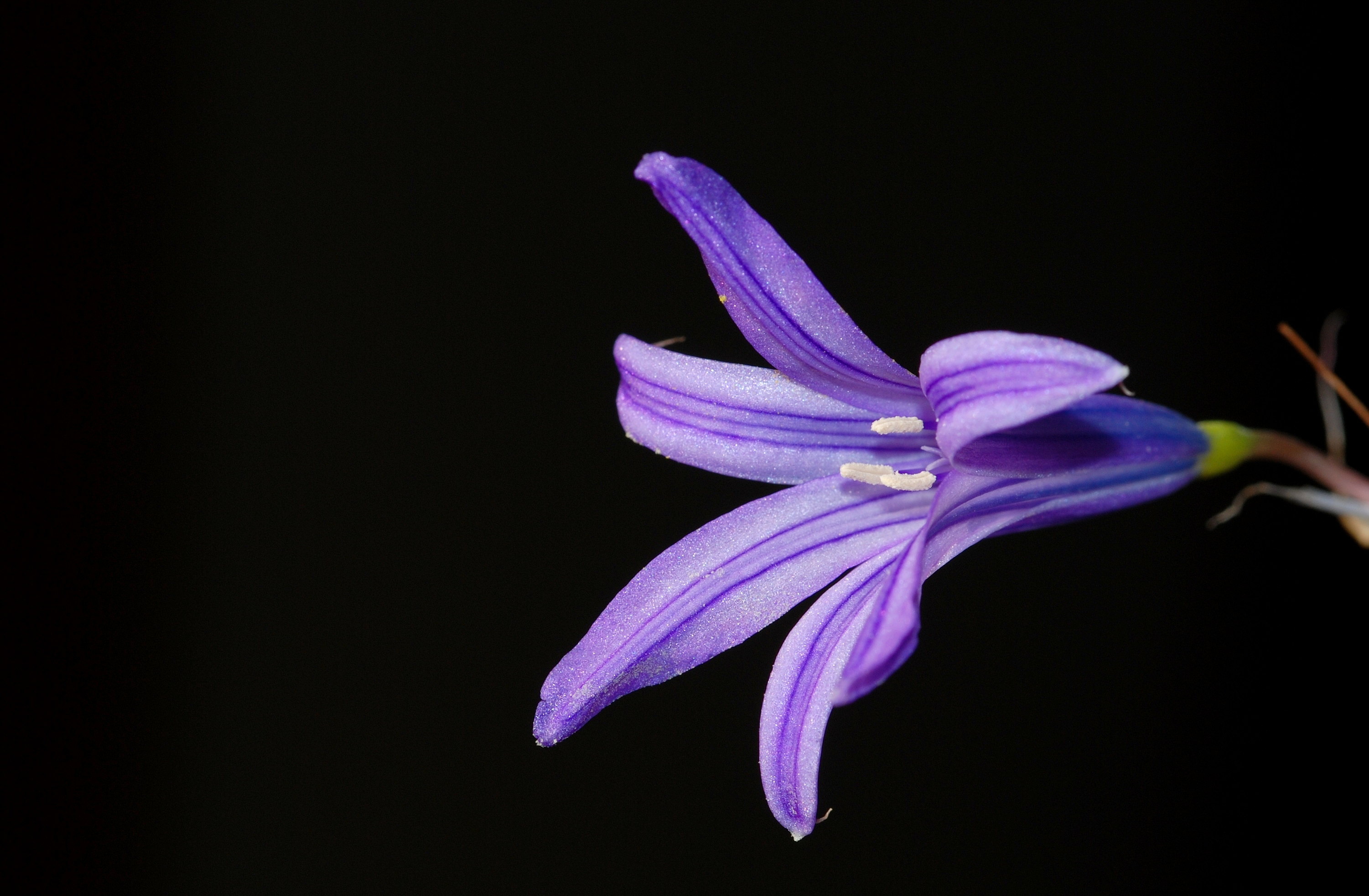 Ixiolirion tataricum Kurdî: Li gundê Quzêrîbmin bi xwe kişandiye